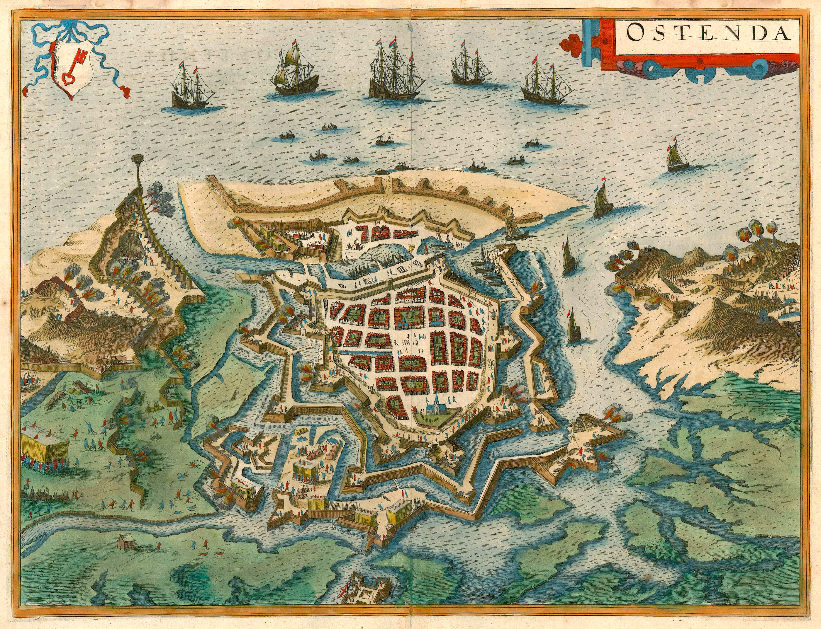 Siege of Ostend (1601-1604) in an early stage. Map by Braun & Hogenberg. Date of the first edition: 1617 Date of this map: c. 1625.